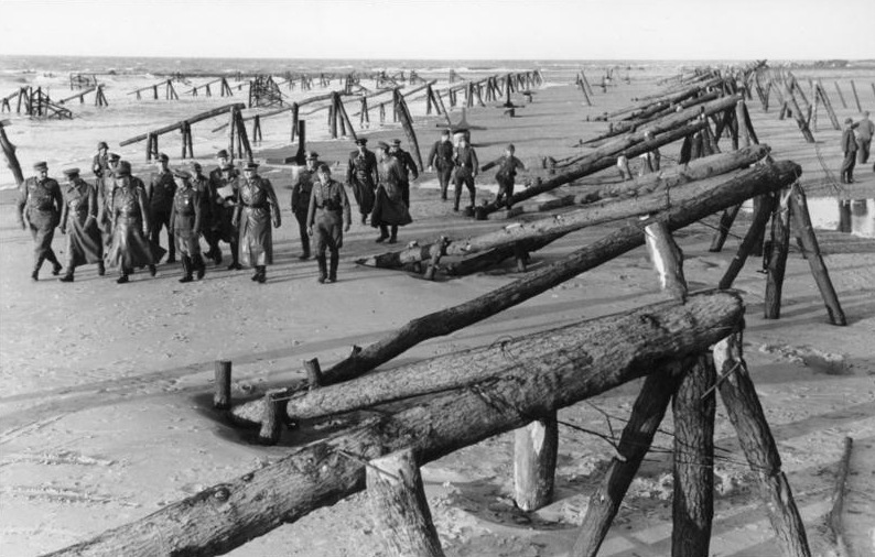 France,Belgium - Field Marshal Erwin Rommel with officers on inspection of wooden barriers on the beach before the Atlantic Wall, April 1944.